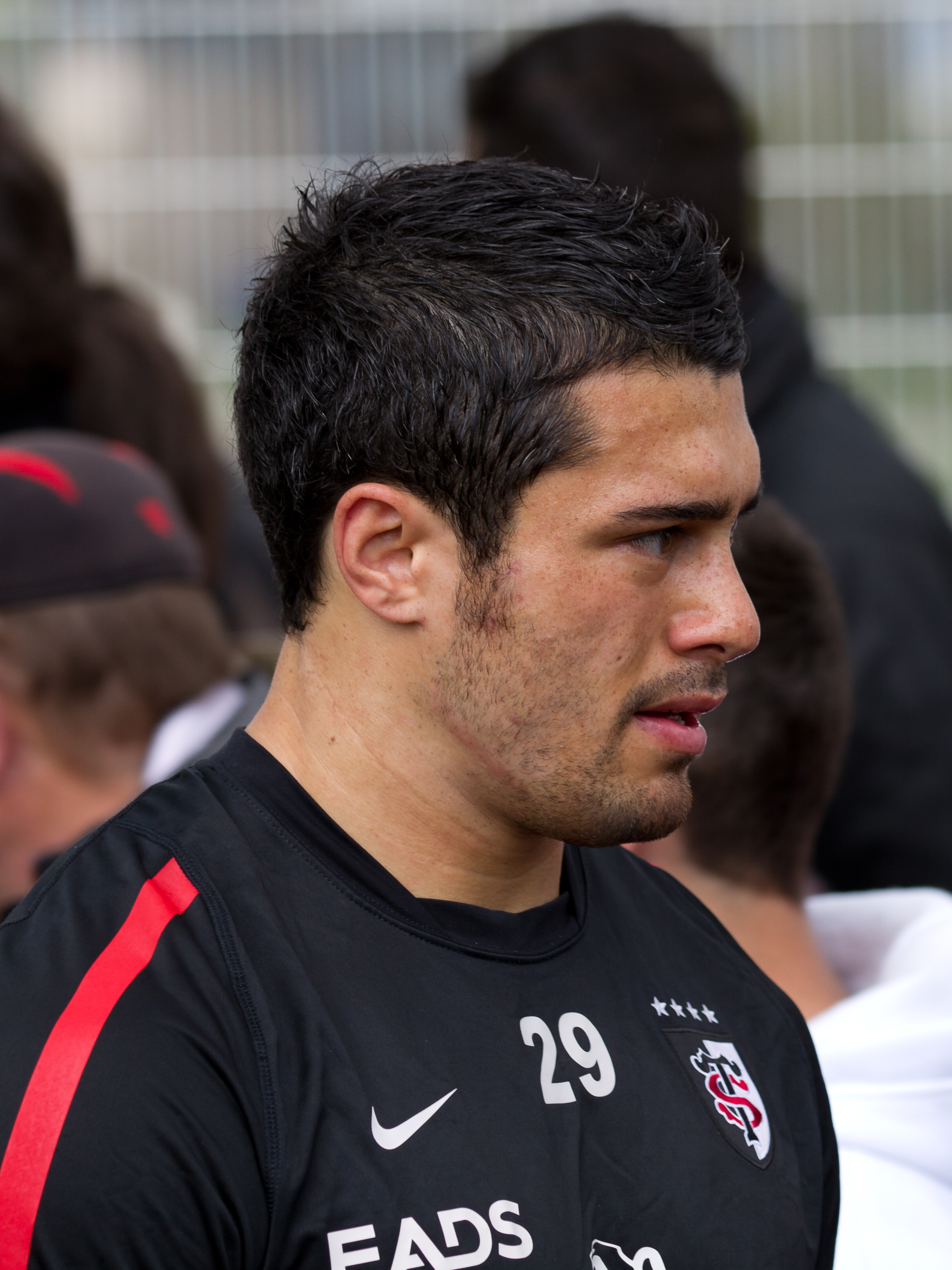 Top 14 — 21 April 2012, Stade Ernest-Wallon. Match between: Stade toulousain — CA Brive Yann David